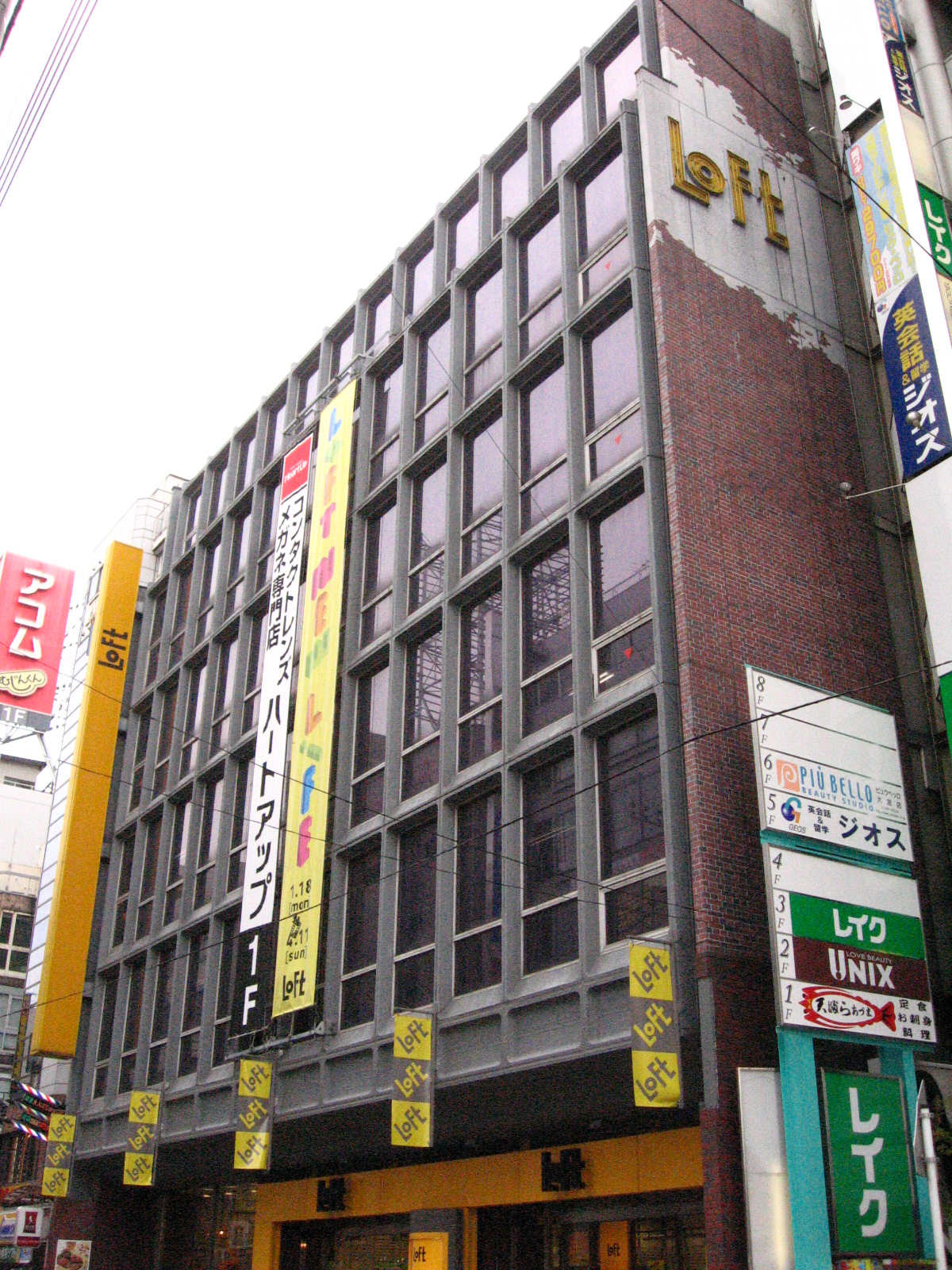 Former building in Omiya Loft.